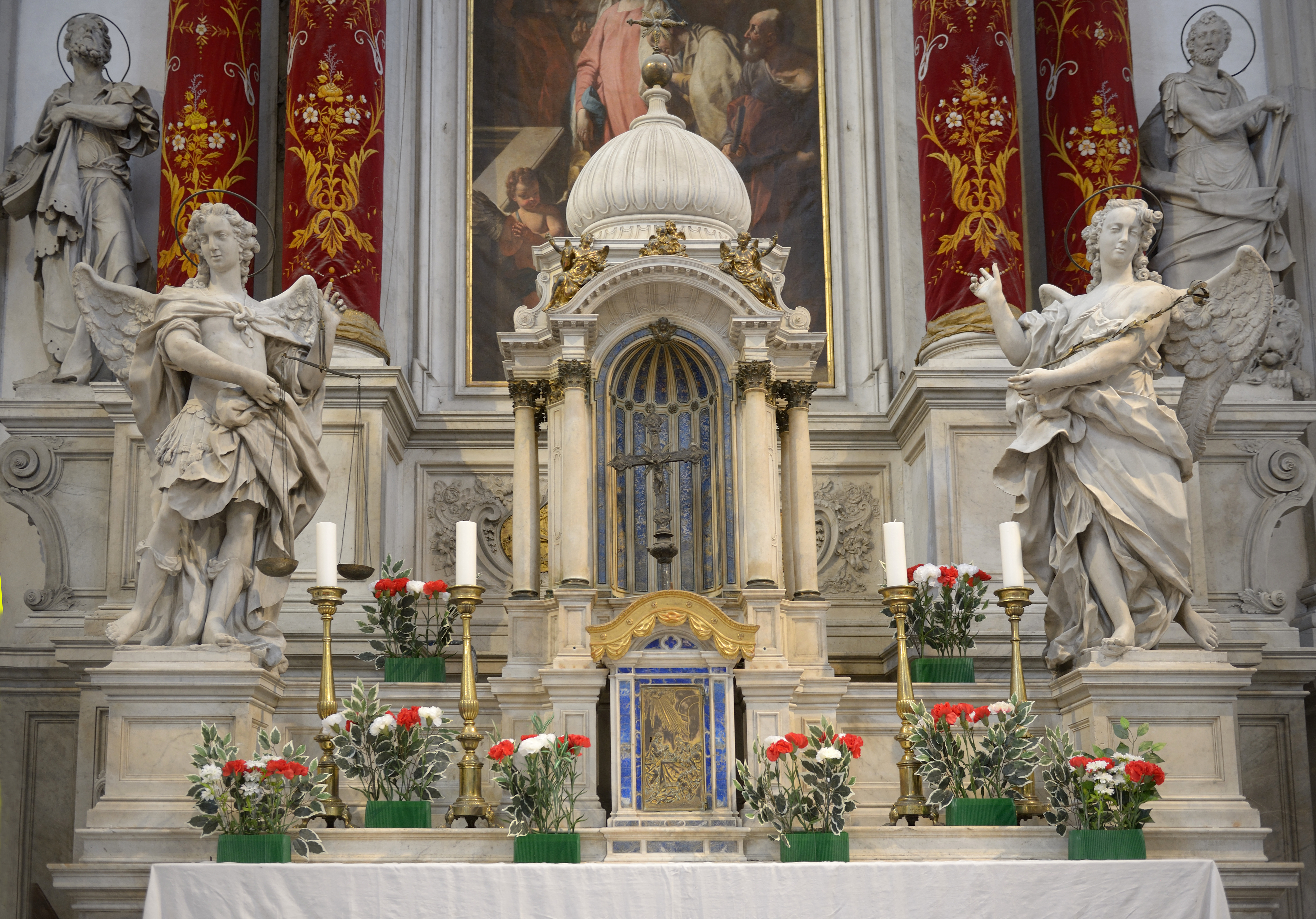 Altar in the Santa Maria della Visitazione church in Venice. Archangels Michael (left) and Gabriel (right) attributed to Giovanni Maria Morlaiter. In the back Peter and Mark the Evangelist by Giovanni Marchiori